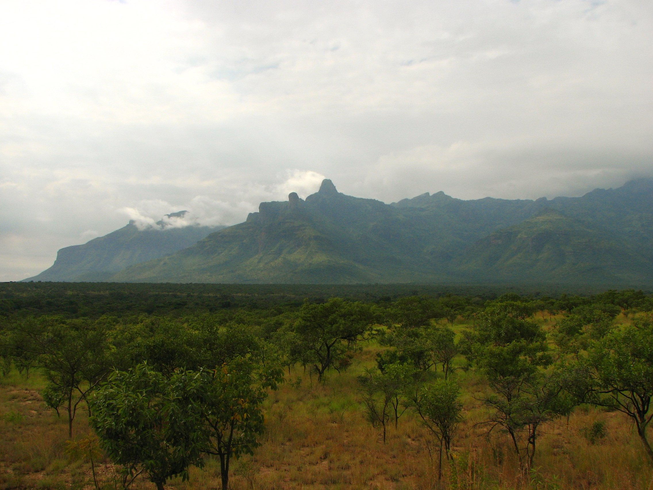 Mount Moroto from the west side, Uganda